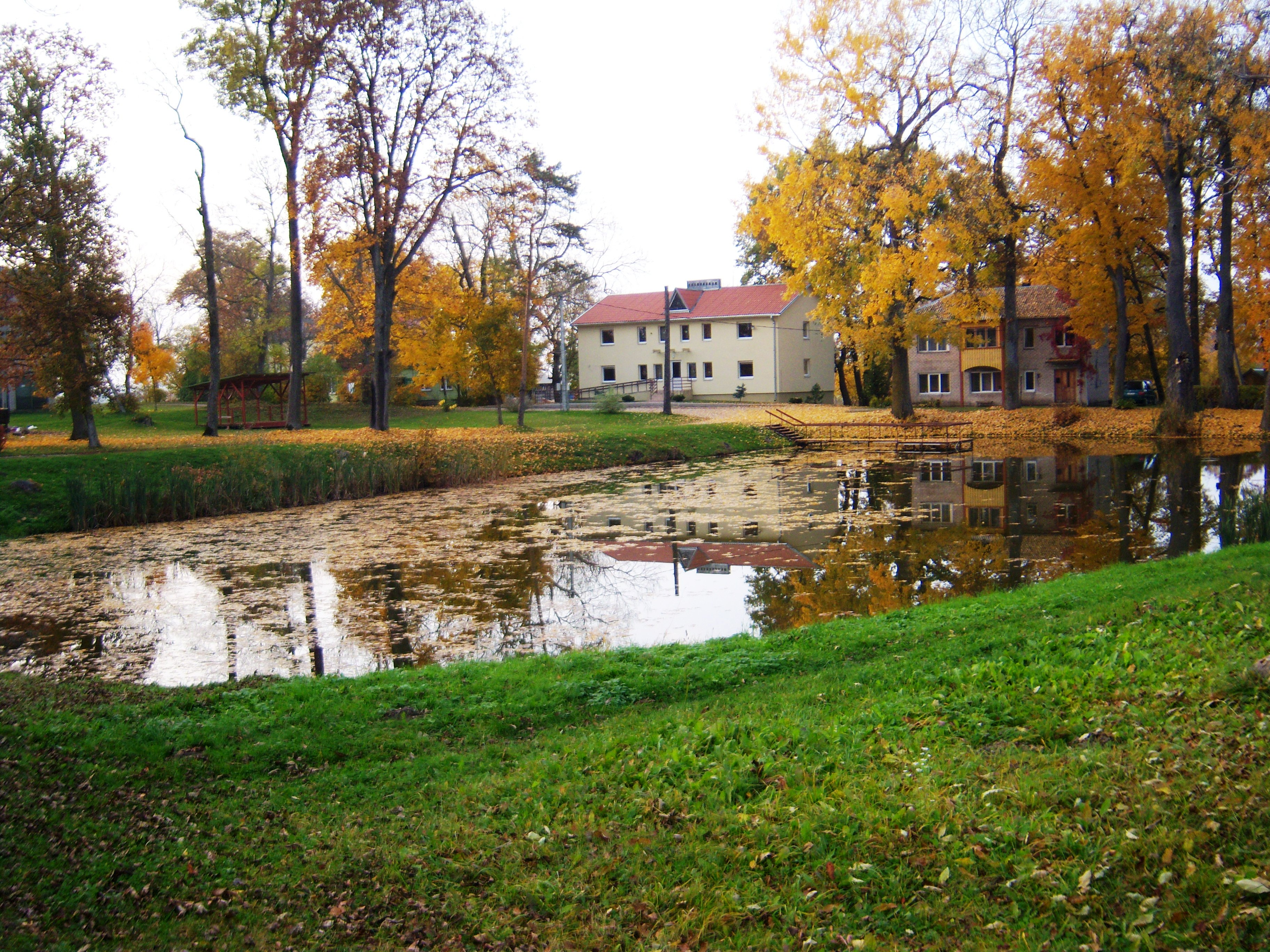 Former manor in Aknystos, pond, Anykščiai District, Lithuania